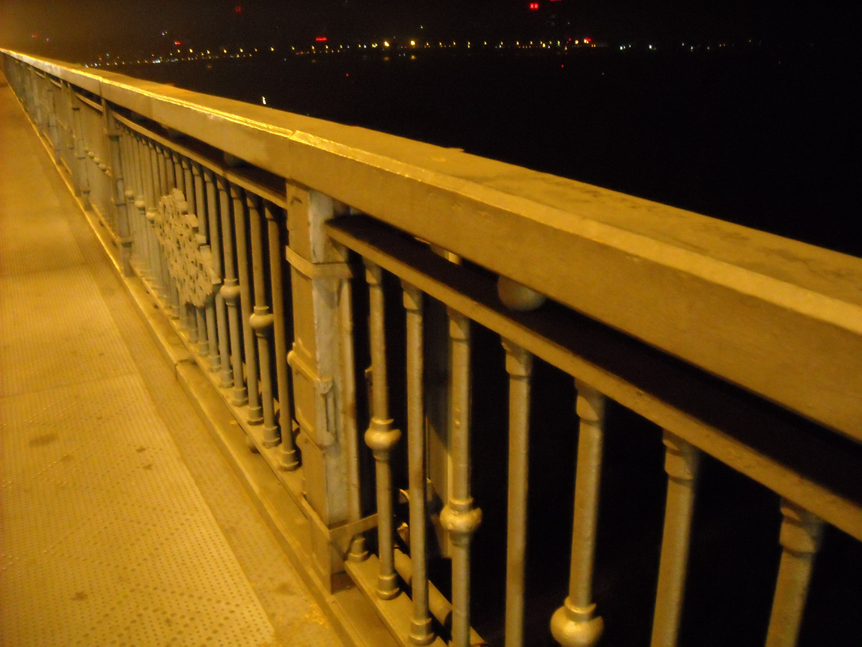 railings of Wuhan Yangtze River bridge